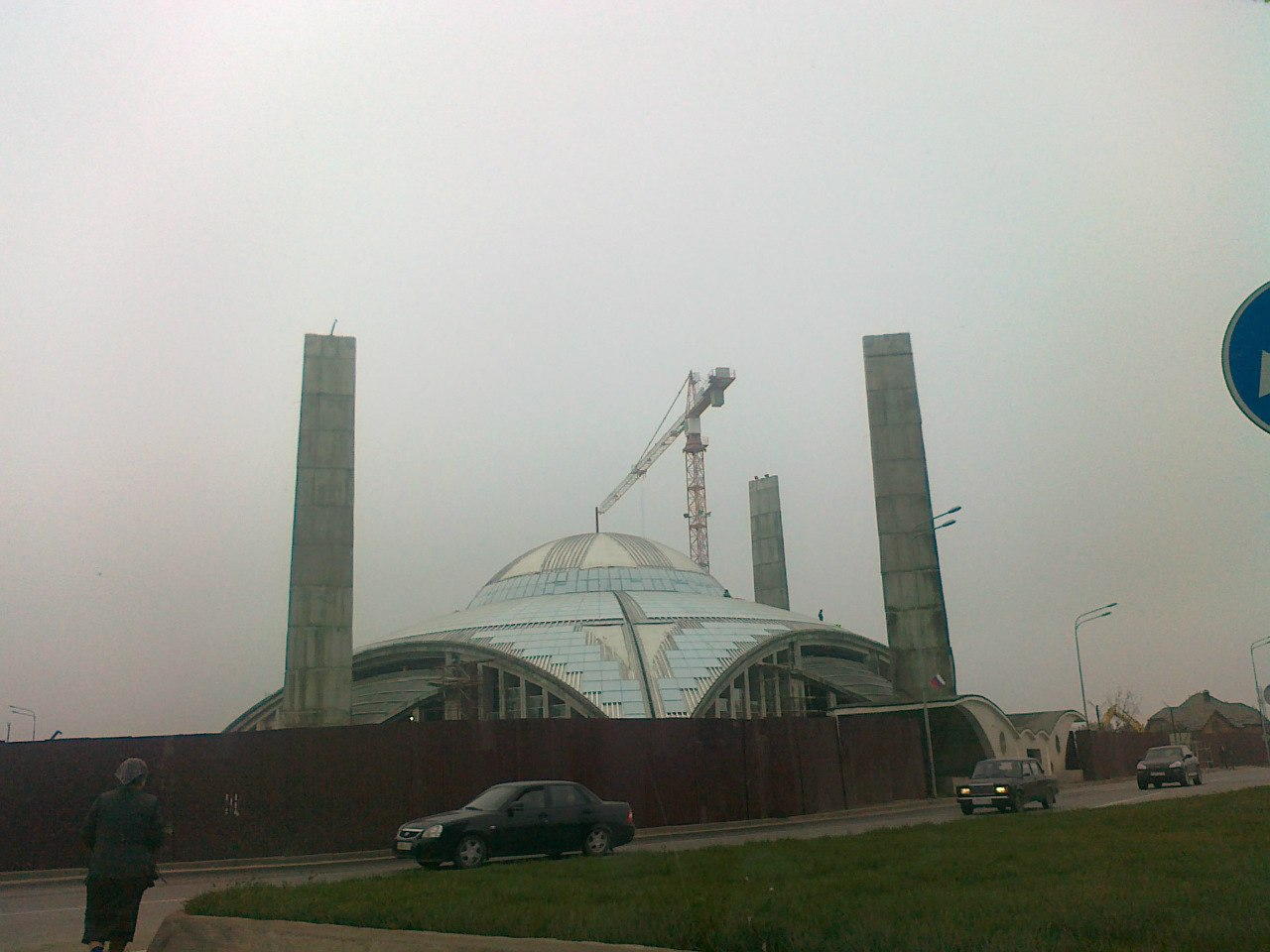 Нохчийн: Нохчийчоь This work is free and may be used by anyone for any purpose. If you wish to use this content, you do not need to request permission as long as you follow any licensing requirements mentioned on this page.